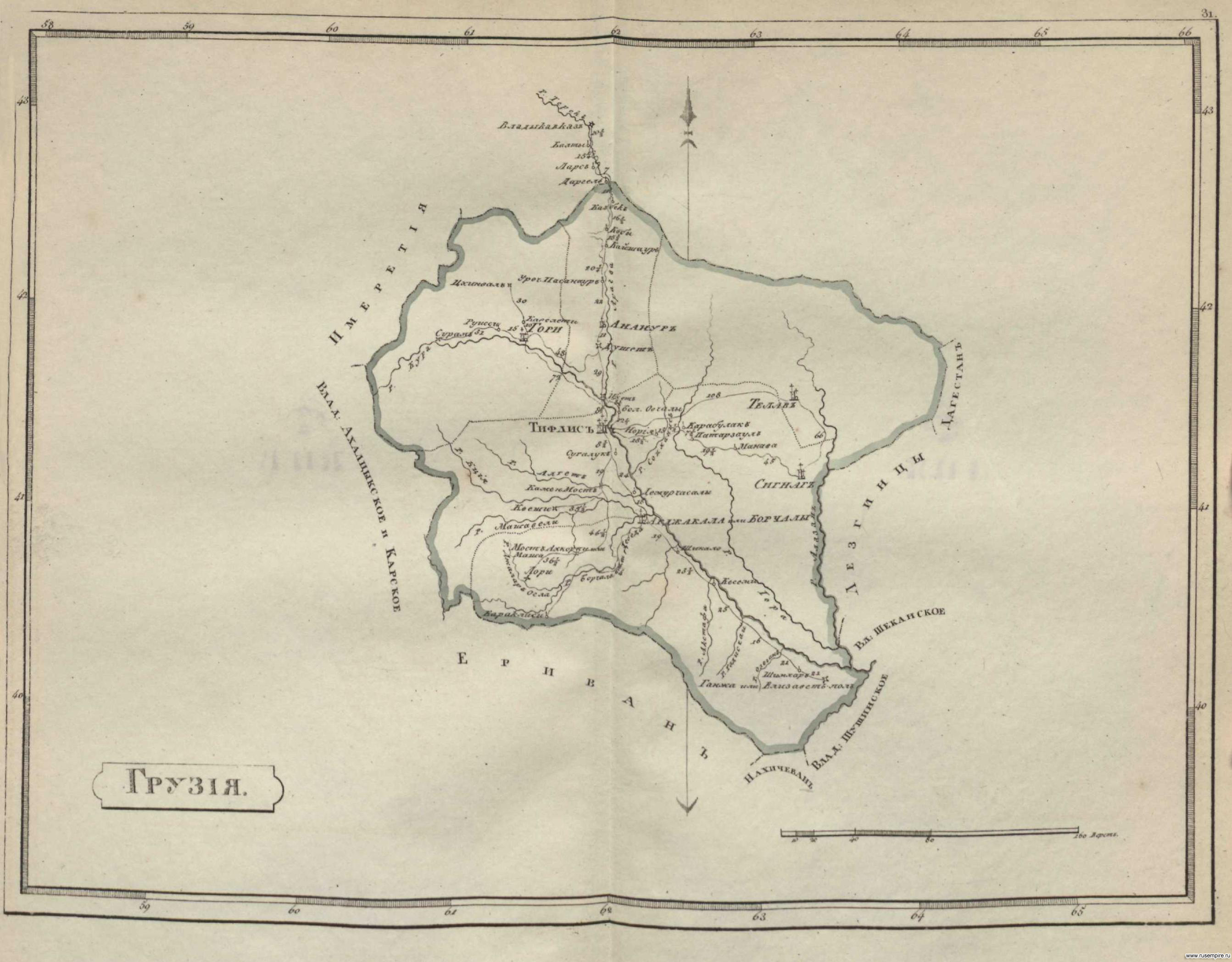 Map of Georgia in the Russian Empire. From the pocket atlas of the Russian Empire published in St. Petersburg in 1808